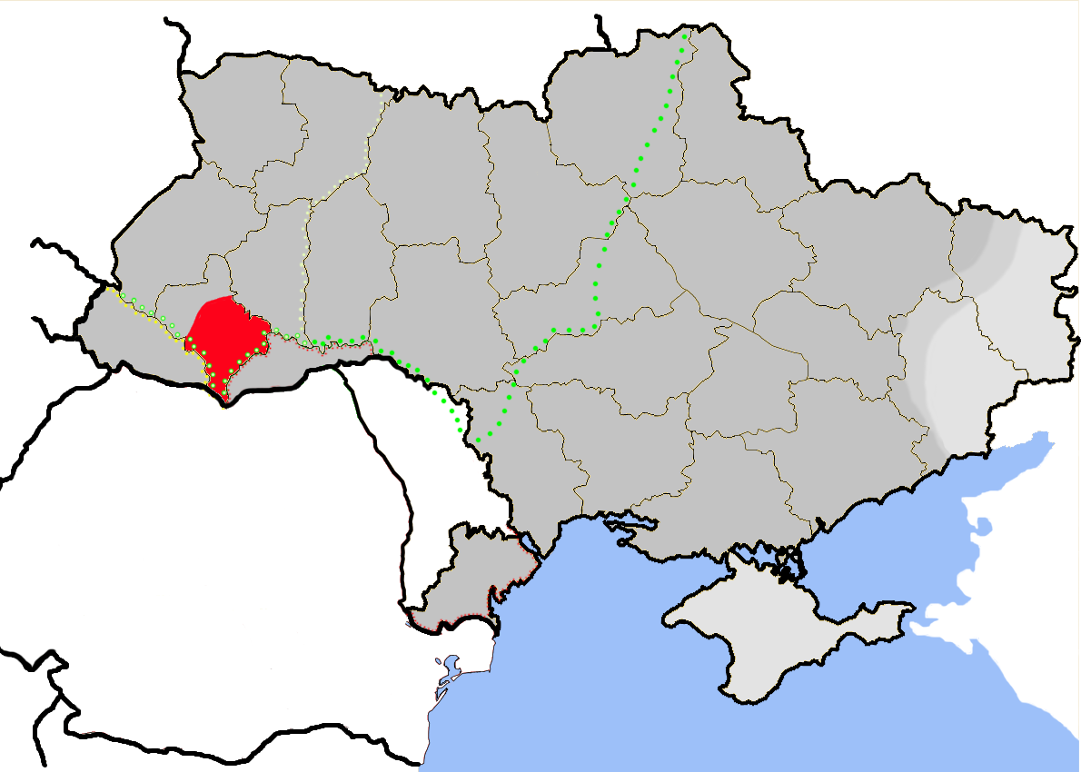 Place of Pokuttia (red) in Ukraine (grey). Green dots: Polish borders in the Middle Ages. Light green dots: Polish border 1921-1939. Yellow dots: Hungarian border from the Middle Ages until 1918 and from 1939 until 1944. Red little dots: Moldavian borders in the Middle Ages.